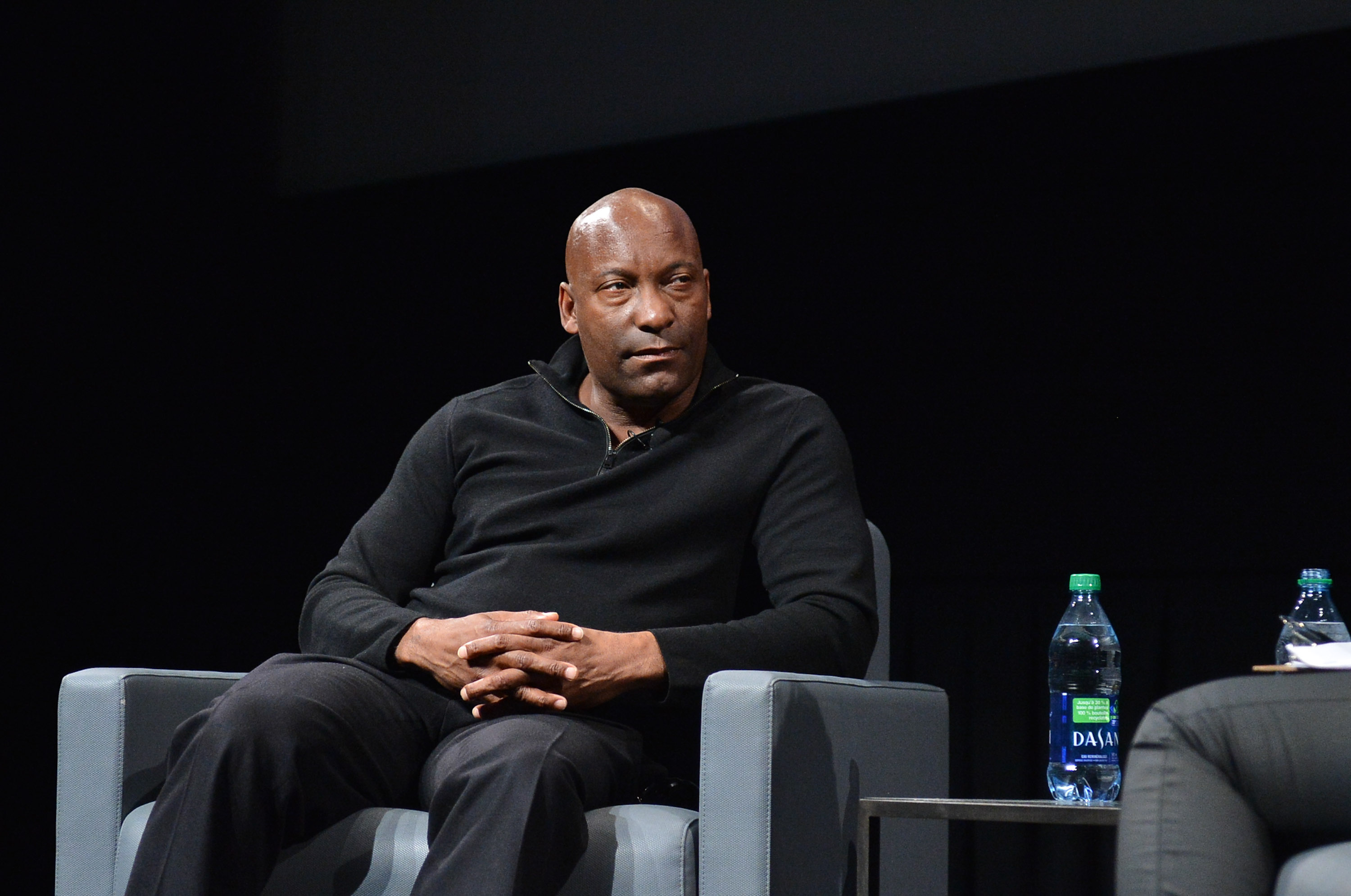 Presented by TD and BAND (Black Artists' Network in Dialogue), Clement Virgo Productions and CFC. and hosted by Garvia Bailey (CBC Radio 1), we took a look at Singleton’s influential body of work (BOYZ N THE HOOD, POETIC JUSTICE, SHAFT, BABY BOY) and talked with the iconic filmmaker about his inspirations, his filmmaking process, and reflecting the black experience in film. Singleton's 1991 film debut Boyz N the Hood received Academy Award® nominations for Best Director and Best Screenplay. At 24, he became the youngest person ever nominated for the Best Director Oscar®, as well as the first African-American to be nominated. This event was part of TD's Then and Now series, an inspiring and entertaining cultural showcase of one of Canada's prominent communities. The lineup of events includes films, concerts, exhibitions, and performances by a host of Canadian and international artists. For more information, visit: Photo by George Pimentel.